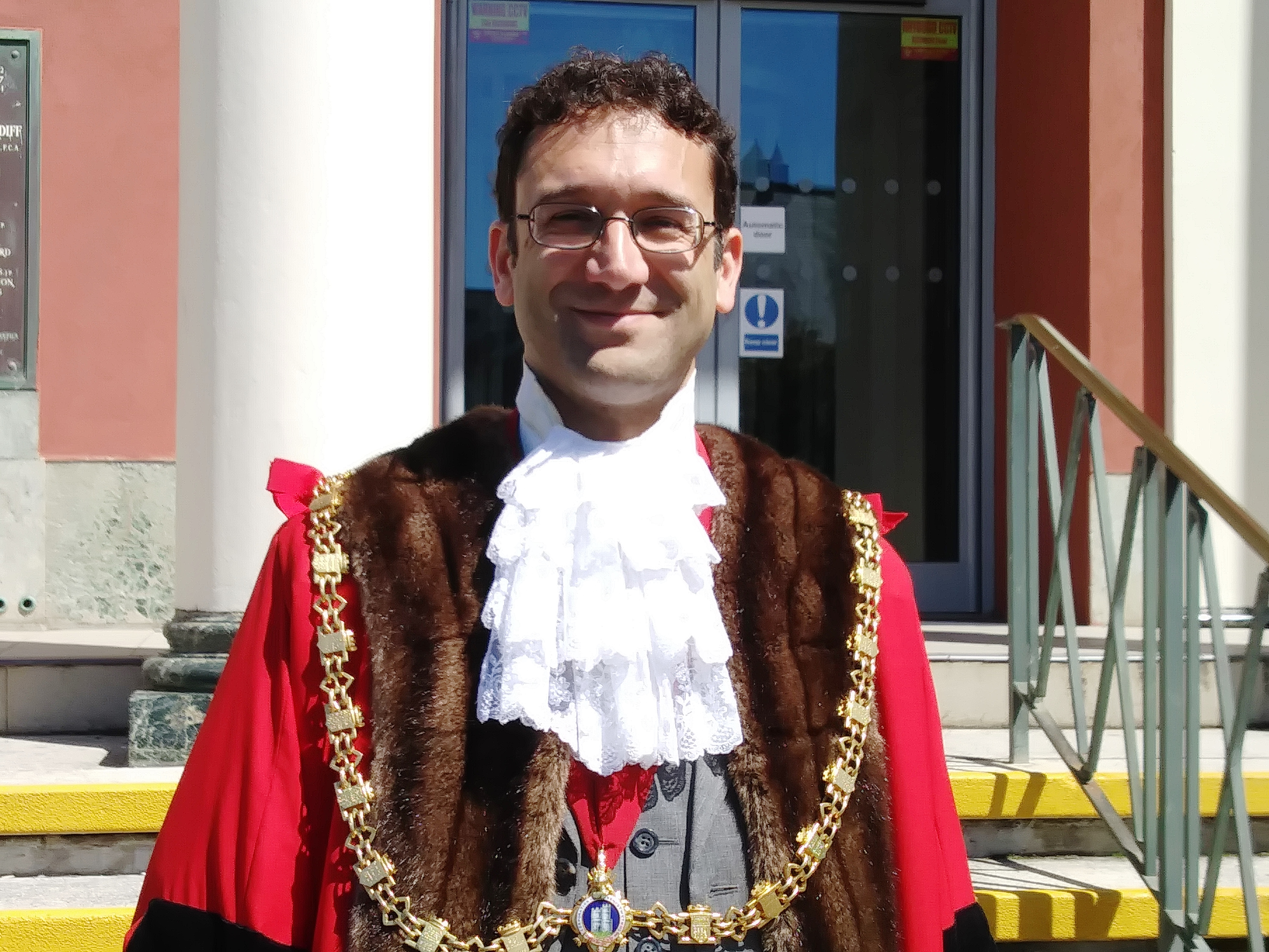 Talat Chaudhri, Mayor of Aberystwyth